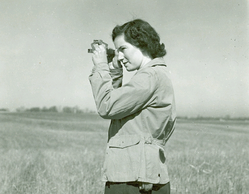 Mary C. Baltz, Survey Party Chief, Canastota New York. Mary did all of the soils surveying for seven planners in Madison, Oneida and Lewis counties. As of May 1, 1949, Mary was the only woman doing this type of work in the Soil Conservation Service (SCS) in the United States.